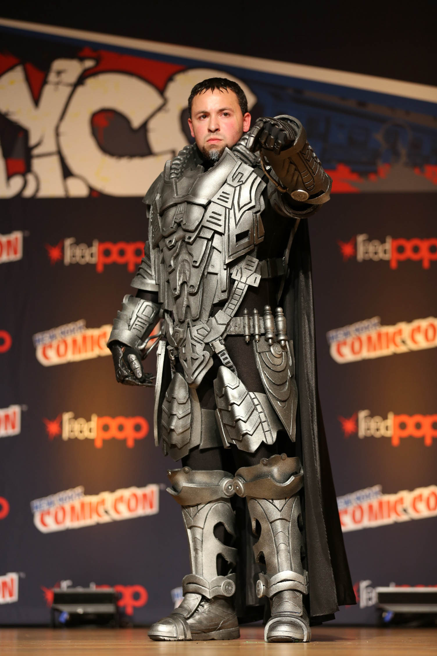 Cosplay at the 2014 New York Comic Con.